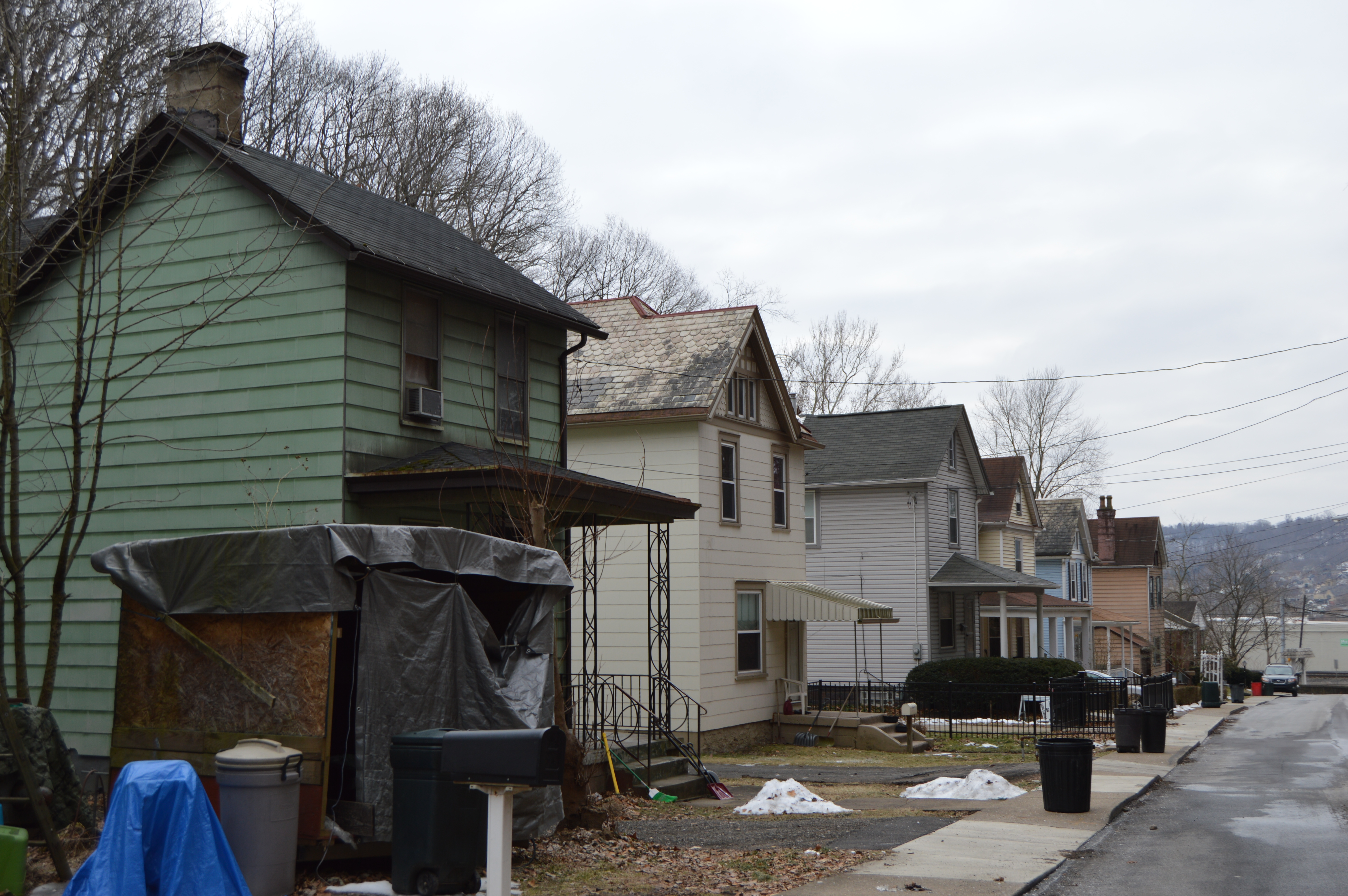 Houses on the eastern side of River Road in Haysville, Pennsylvania, United States. Haysville is one of the state's smallest boroughs; most of the population lives in this group of houses.